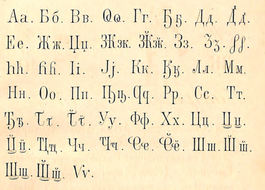 Abkhaz alphabet 1892